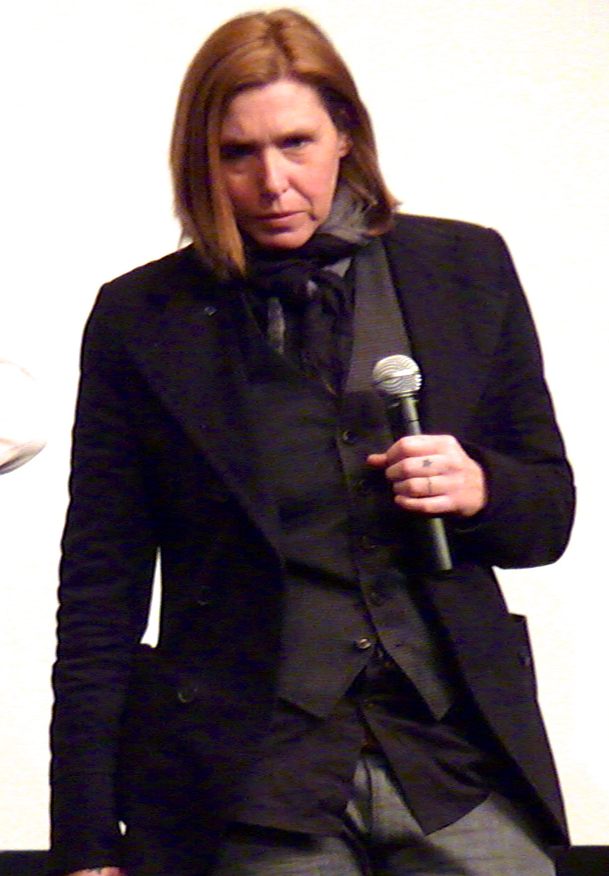 Patty Schemel at the premiere of Hit So Hard: The Life and Near Death of Patty Schemel at the Museum of Modern Art in New York City, 2011.